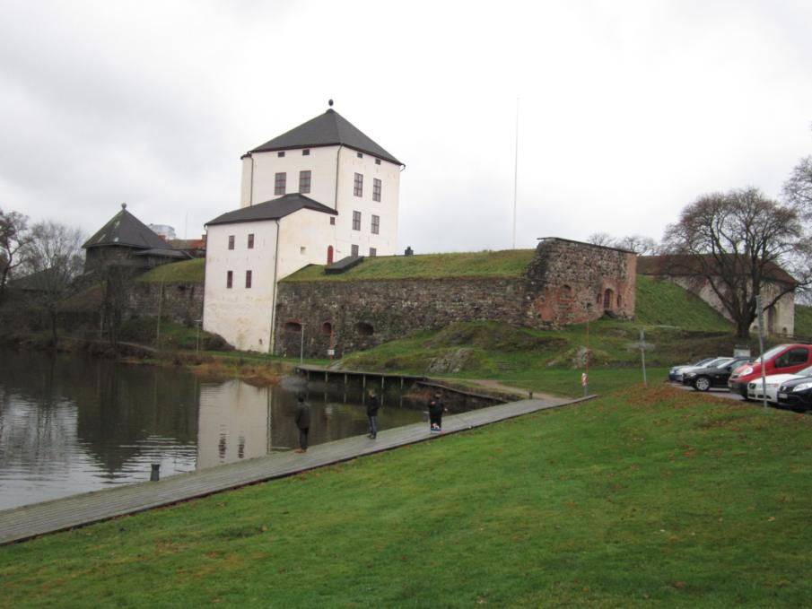 Castle Nyköping, as released by image creator Ristesson HistoryPlace: Nyköping, Sweden